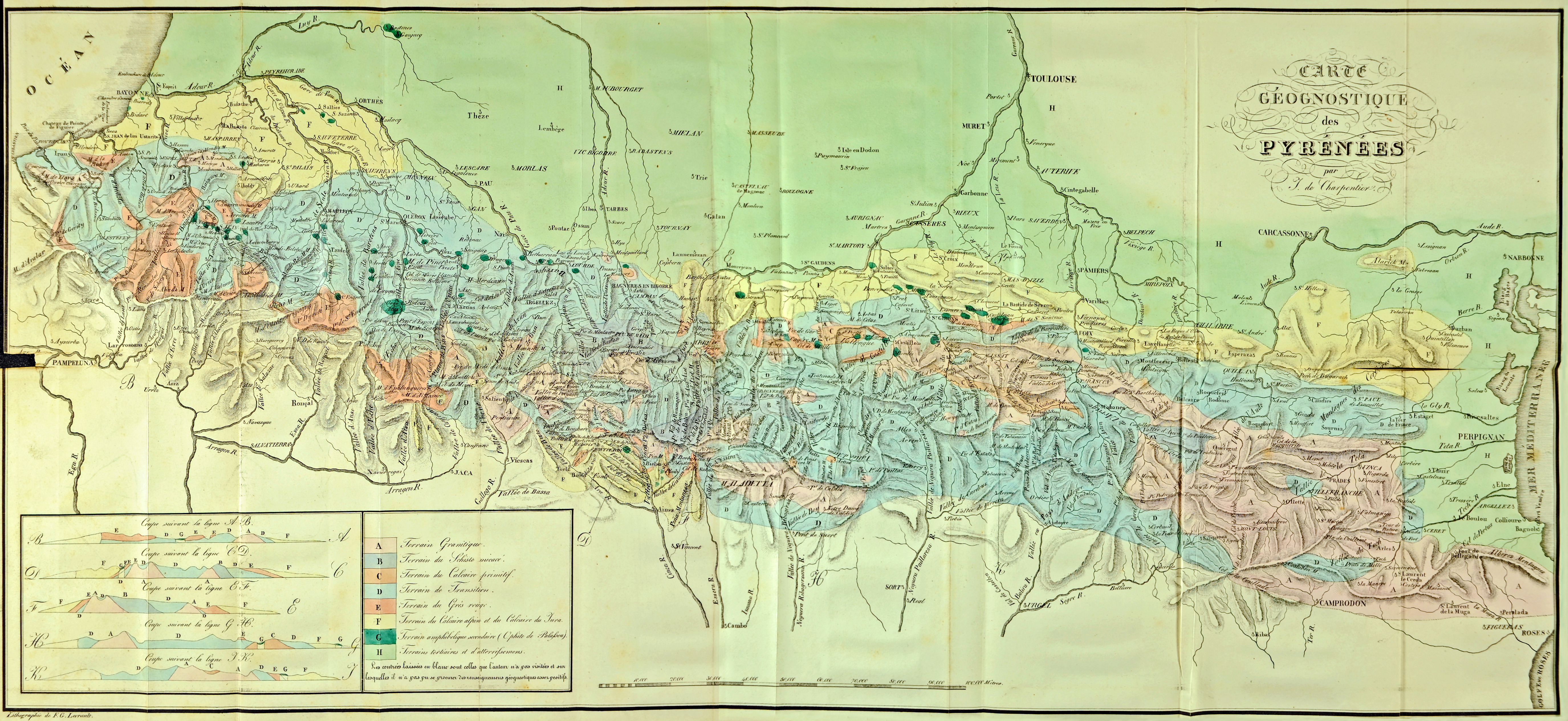 Geological map of the Pyrenees, « Essai sur la constitution géognostique des Pyrénées » par Jean de Charpentier ;1823 ;F-G. LEVRAULT, LIBRAIRE-ÉDITEUR, Strasbourg Source: Library and Documentation Service Museum of Toulouse